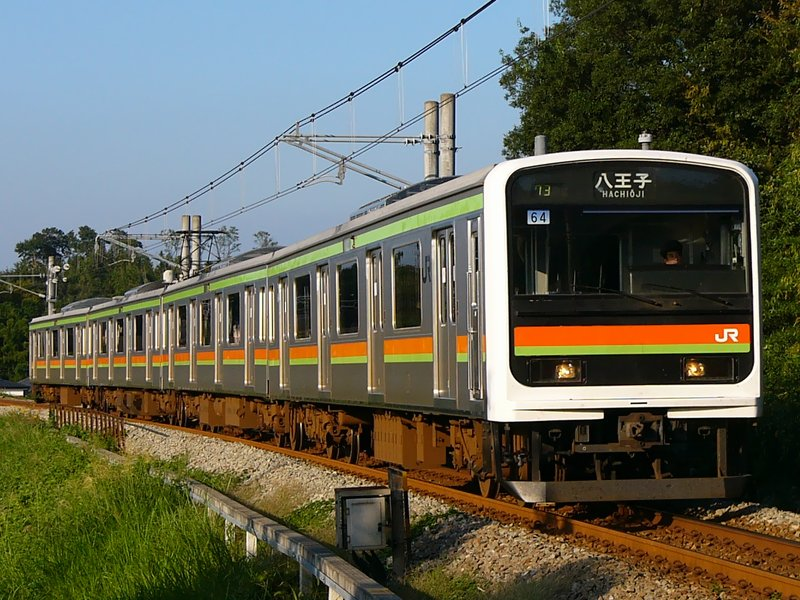 JR East 209-3000 series EMU set 64 on the Hachiko Line